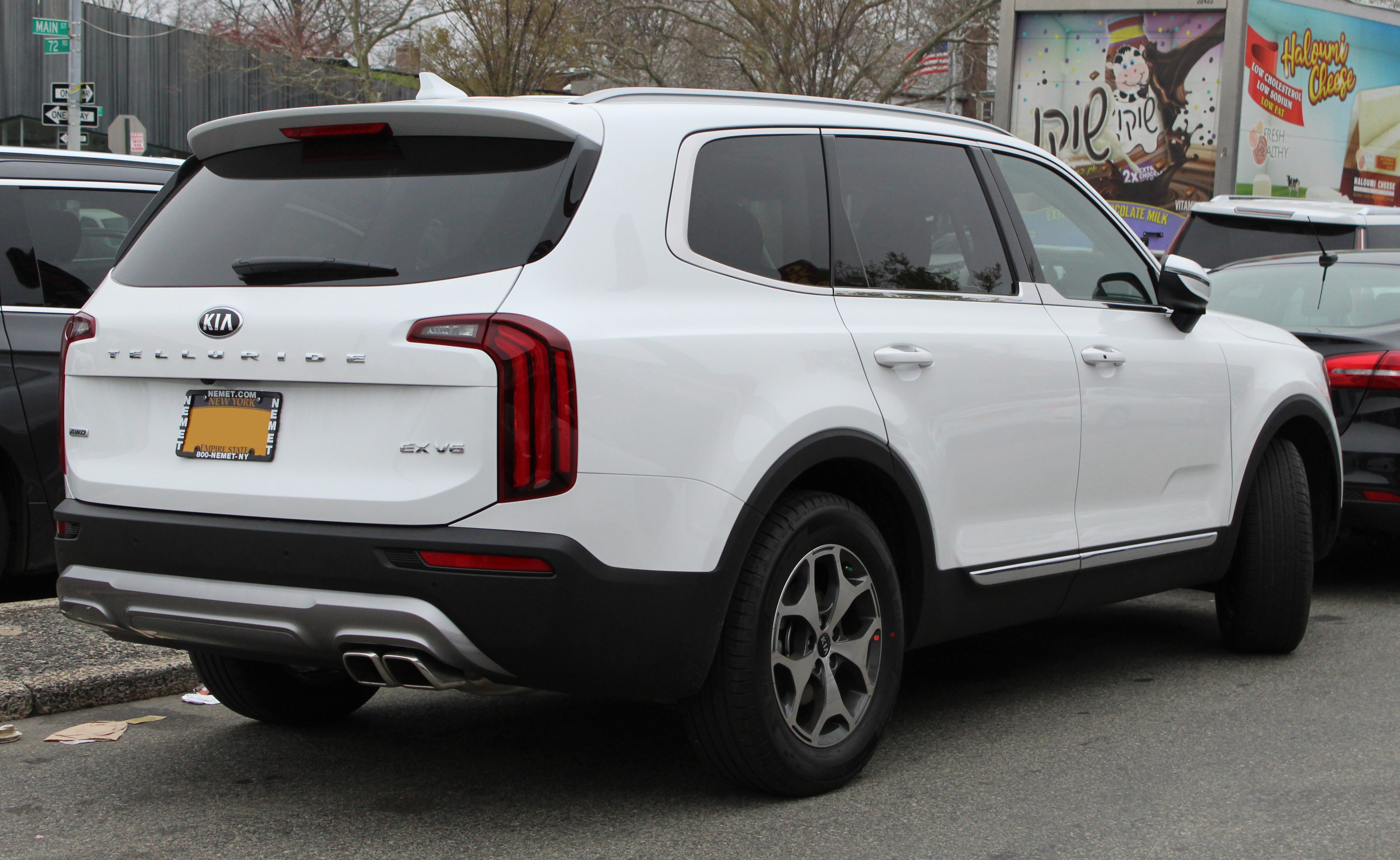 A 2019 Kia Telluride photographed in Kew Gardens Hills, Queens, New York, USA}